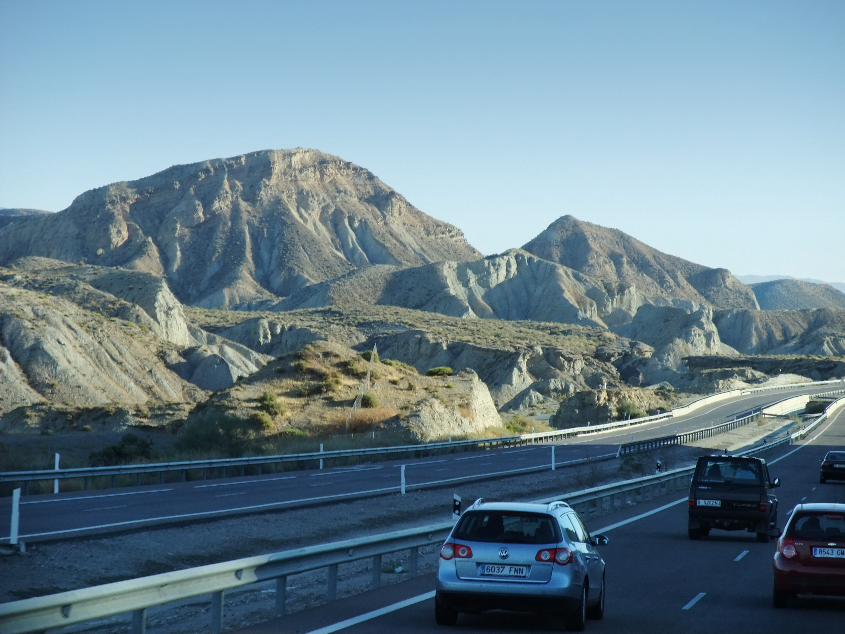 Autovia A92, highway in the Province of Granada, Spain.